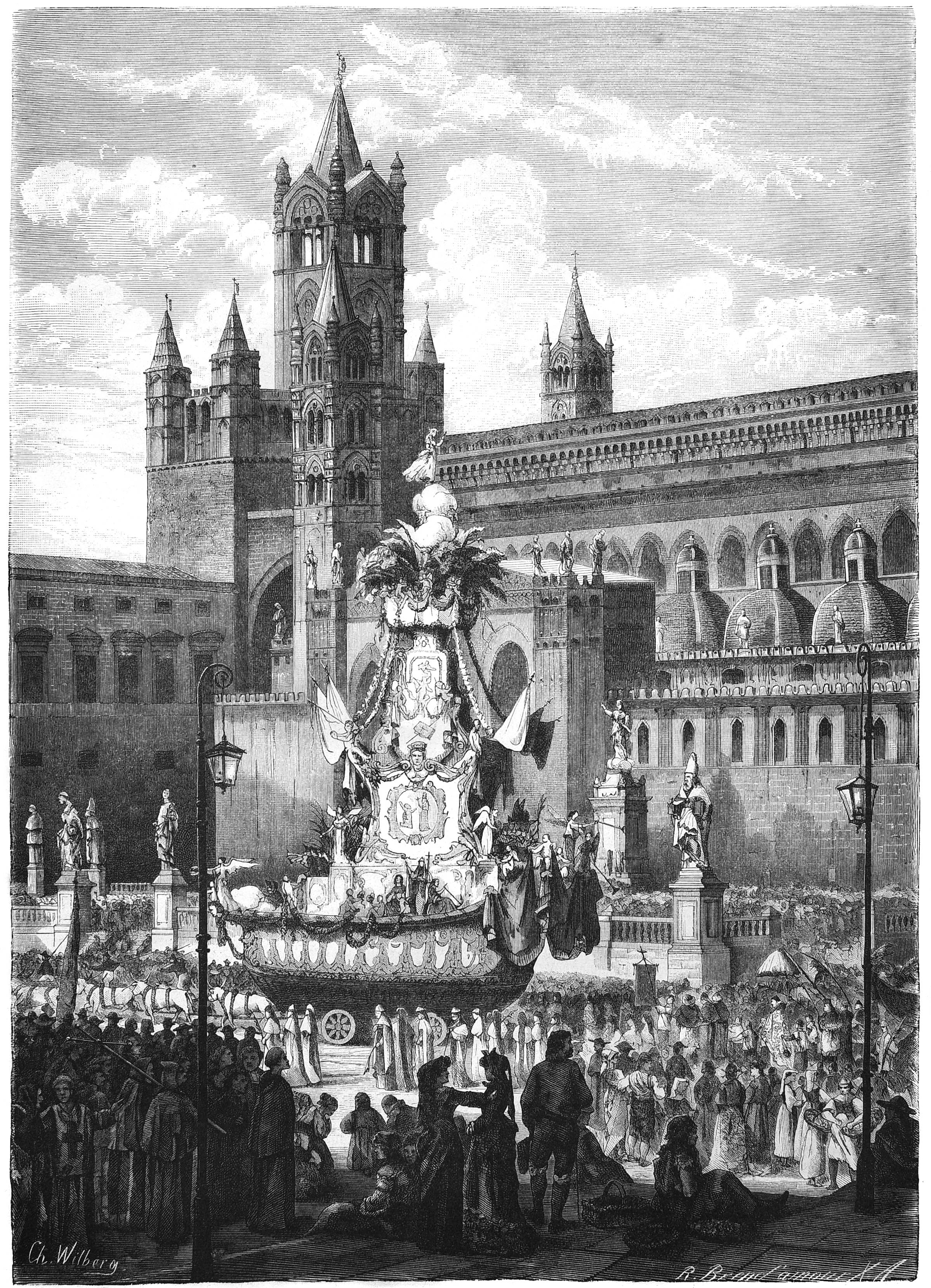 caption: "Rosalien-Festzug in Palermo zur Zeit der Bourbonen. Originalzeichnung von Ch. Wilberg in Berlin."